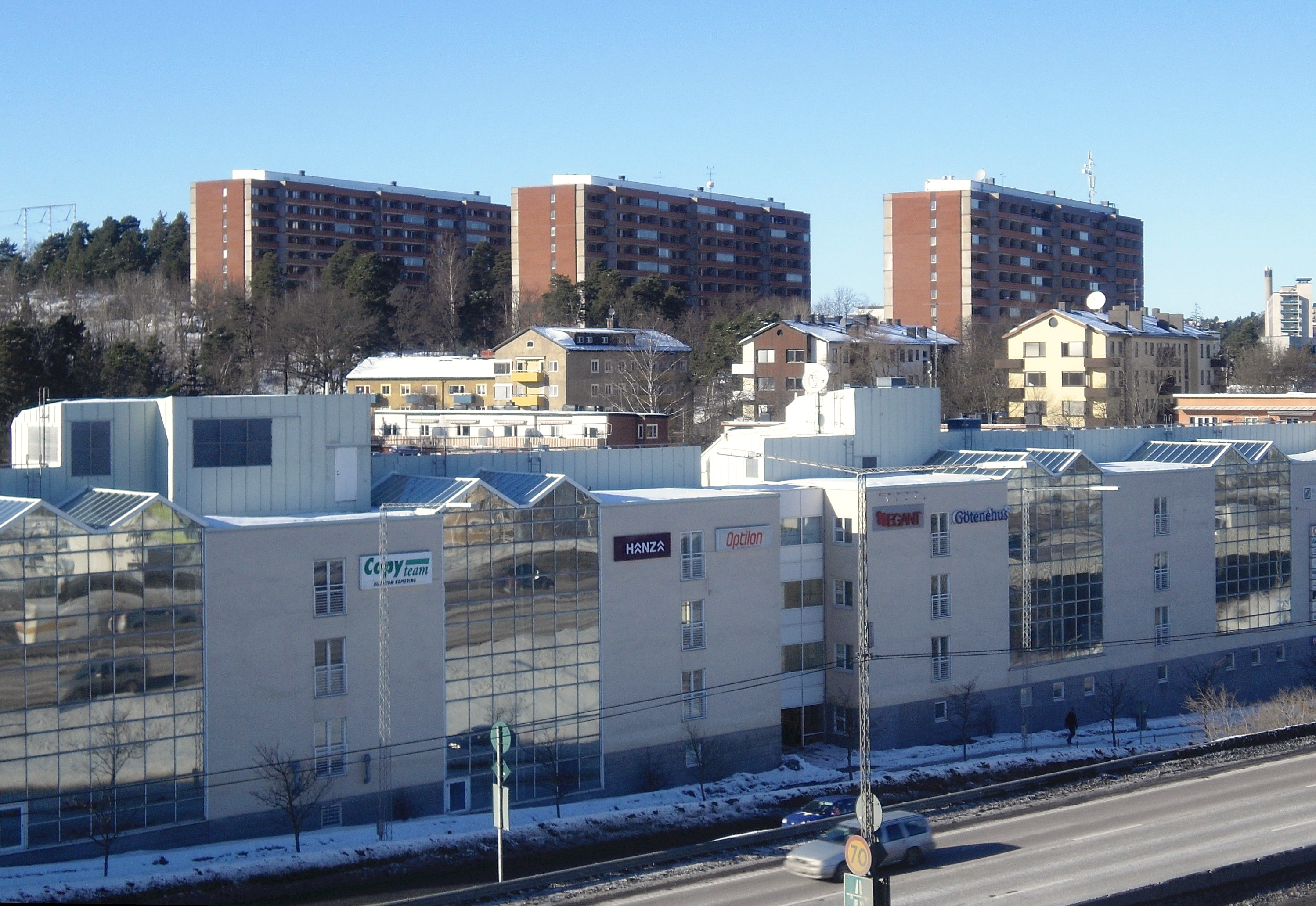 The Inverness area in Stocksund, north of Stockholm, Sweden, March 2010